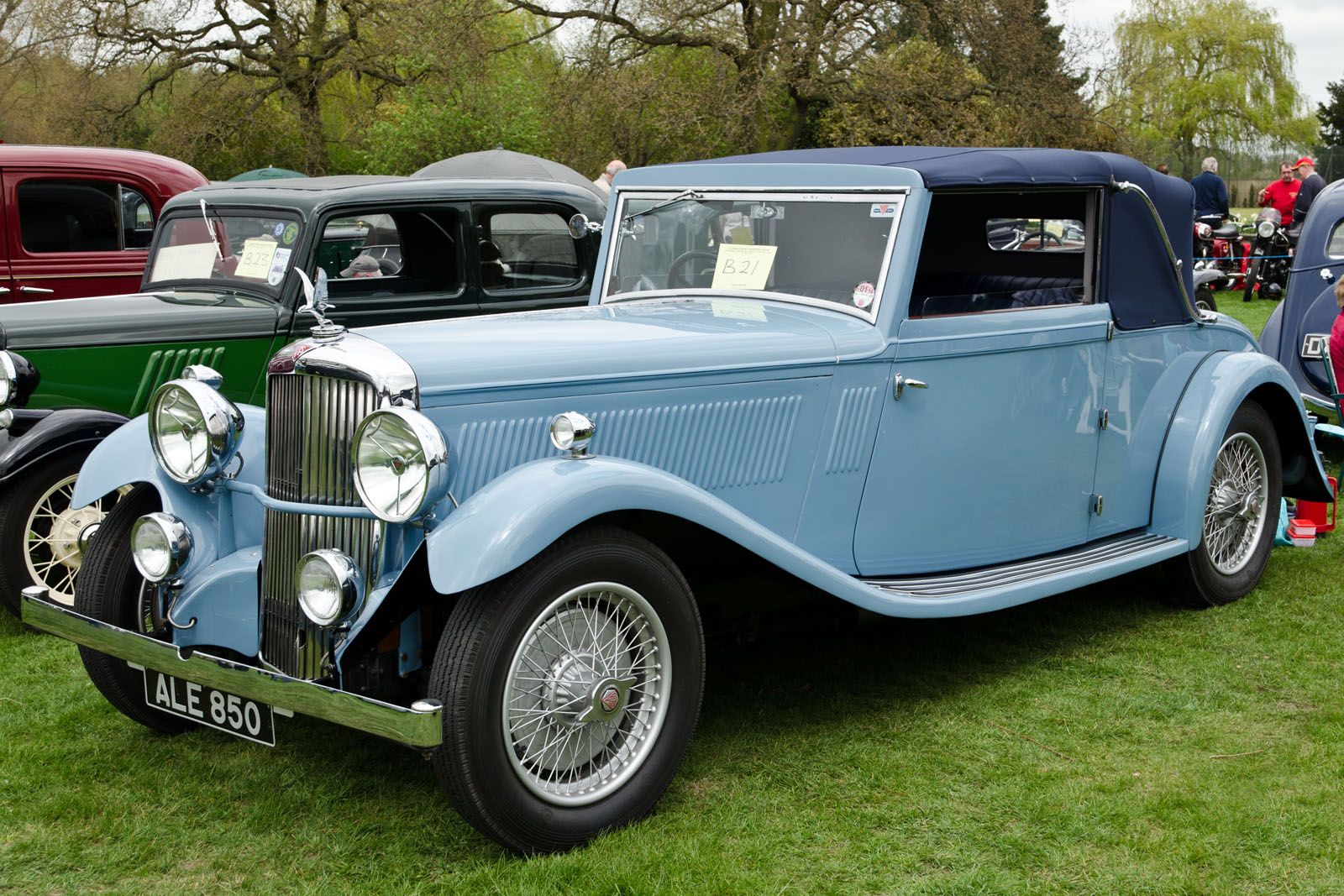 Alvis Crested Eagle drophead coupé 1933Catton Hall Classic Car Show 05/05/2013Coachwork by Vanden Plas, Great BritainChassis-No. Ch10670, early production chassis, 1 of 602, build on special order beneath the works 6-light saloons and limousines with bodywork by Charlesworth Motor Bodies and Mayfair Carriage resp.